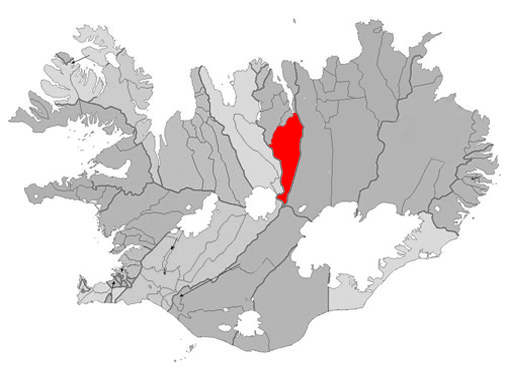 Based on Municipalities of Iceland.png.